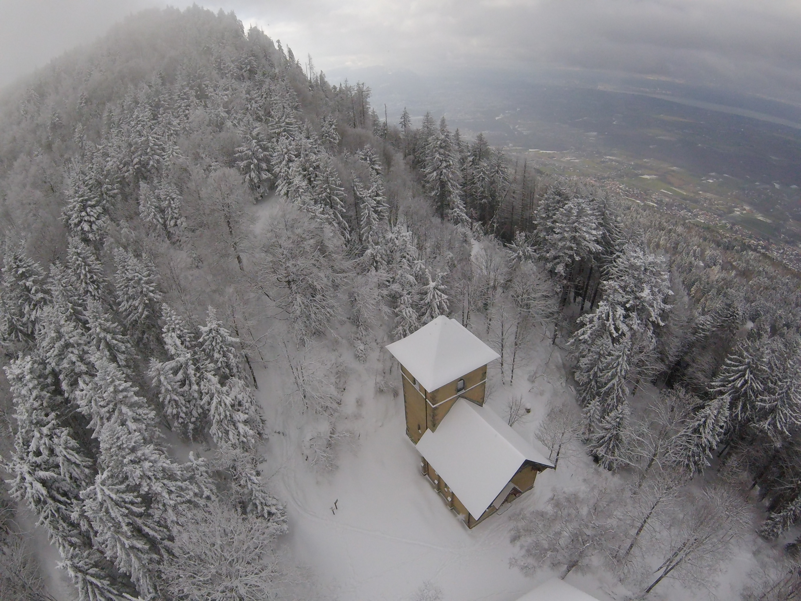 Chapelle Notre-Dame-des-Voirons de Boëge, aerial